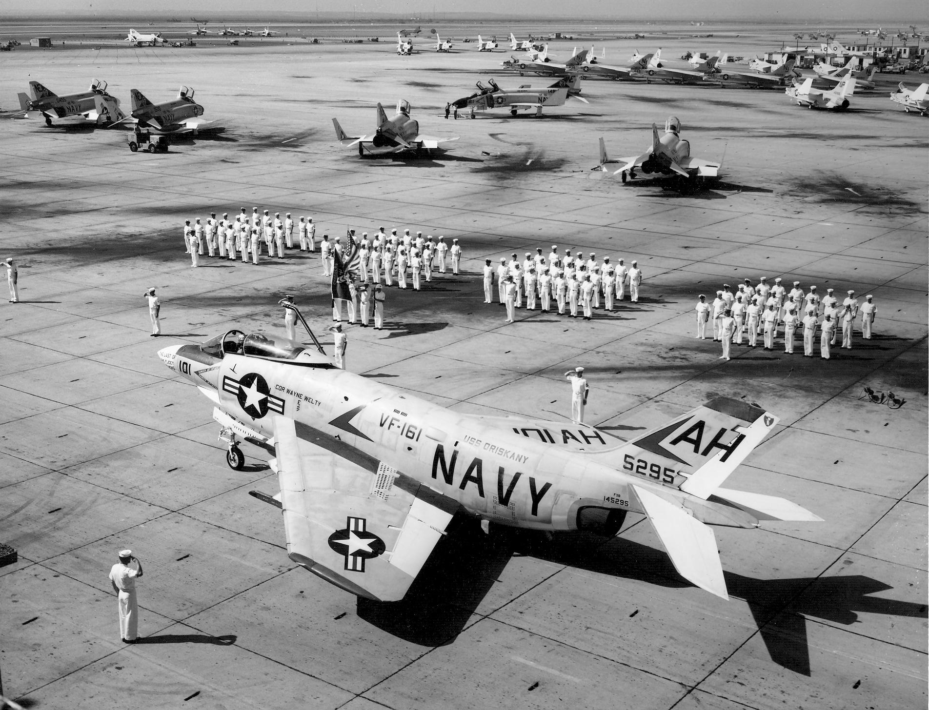 Retirement of the last U.S. Navy McDonnell F-3B Demon (BuNo 145295) in 1964. This aircraft had been assigned to fighter squadron VF-161 "Chargers", Attack Carrier Air Wing 16 (CVW-16), aboard the aircraft carrier USS Oriskany (CVA-34) on a deployment to the Western Pacific from 1 August 1963 to 10 March 1964. The last two Demons were "piped over the side" in a colourful ceremony at the U. S. Naval Air Station, Miramar, California (USA), which at the same time, welcomed aboard the first F-4B Phantom II to be delivered to the squadron. CDR W.J. Welty, Commanding Officer of Fighter Squadron 161, and LCDR L.D. Baldridge, squadron Executive Officer, taxied the last two F3Hs past the assembled men of the squadron, who rendered honours to the Demons as they prepared for their last flight.